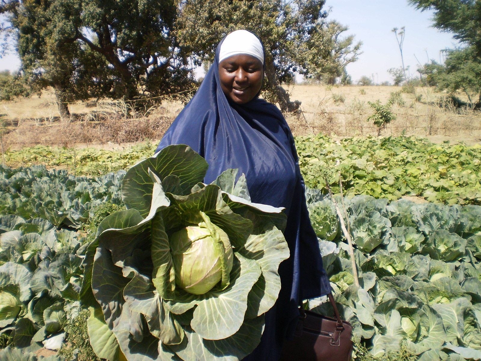 Vegetable with urine as fertiliser